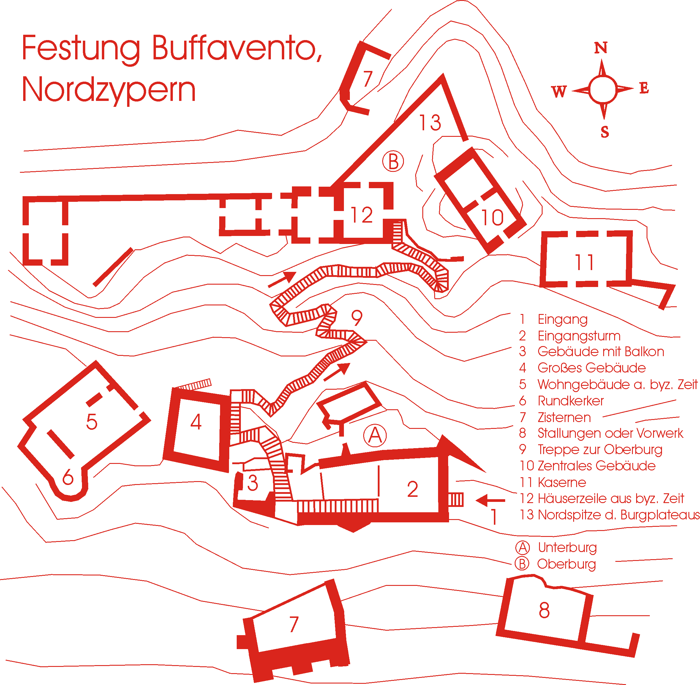 ground-plan of buffavento castle, north cyprus